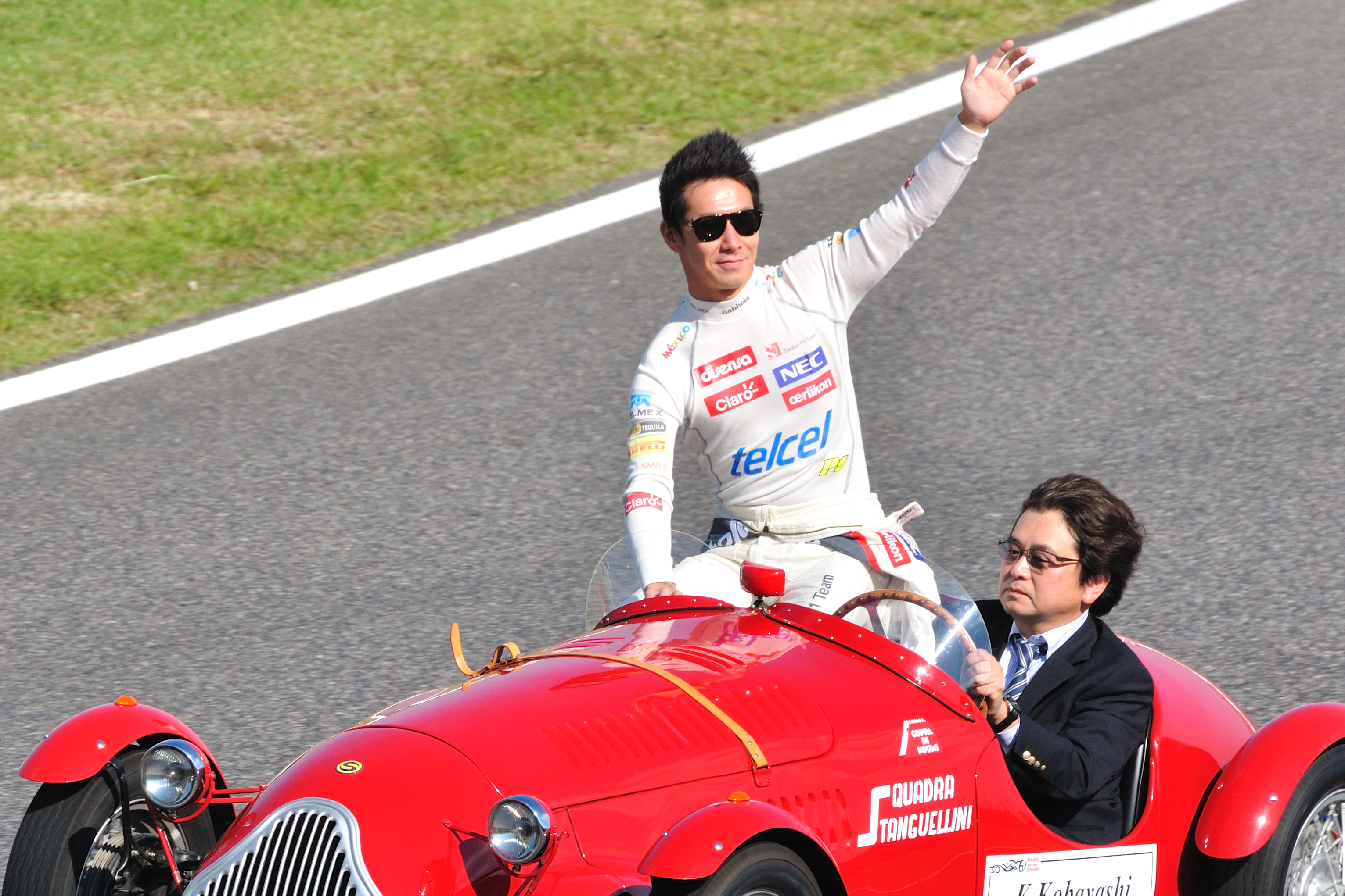 Kamui Kobayashi was the most popular man at Suzuka Circuit during the 2012 Formula 1 Japanese Grand Prix weekend. Pictured here during the Drivers Parade before the race, Kamui also sent the crowds wild afterwards when he achieved third place, his first career podium, and infont of his home fans.